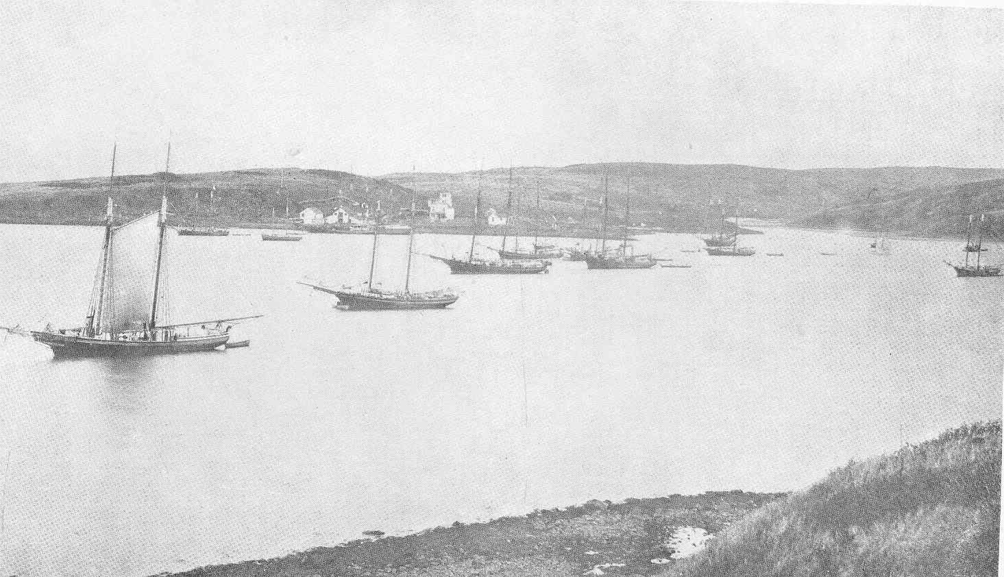 Portion of the Pelagic Sealing Fleet at Sand Point, Shumagin Islands, June, 1893 Subject: Sealing ships, Sailing ships, Sand Point (Alaska), Shumagin Islands (Alaska) Geographic Subject: United States--Alaska--Shumagin Islands Tag: Vessels